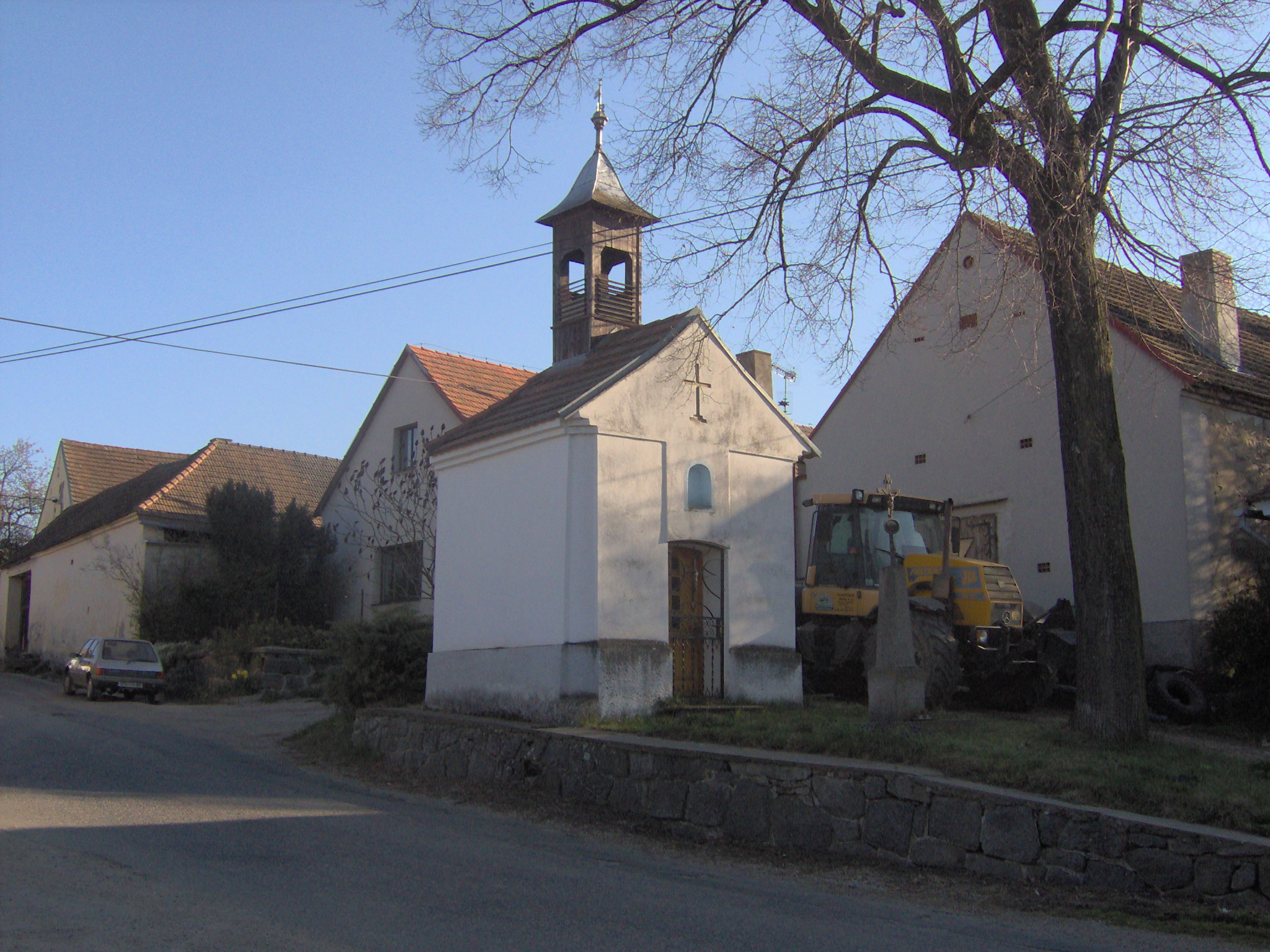 Chapel in Skály, Strakonice District, Czech republic